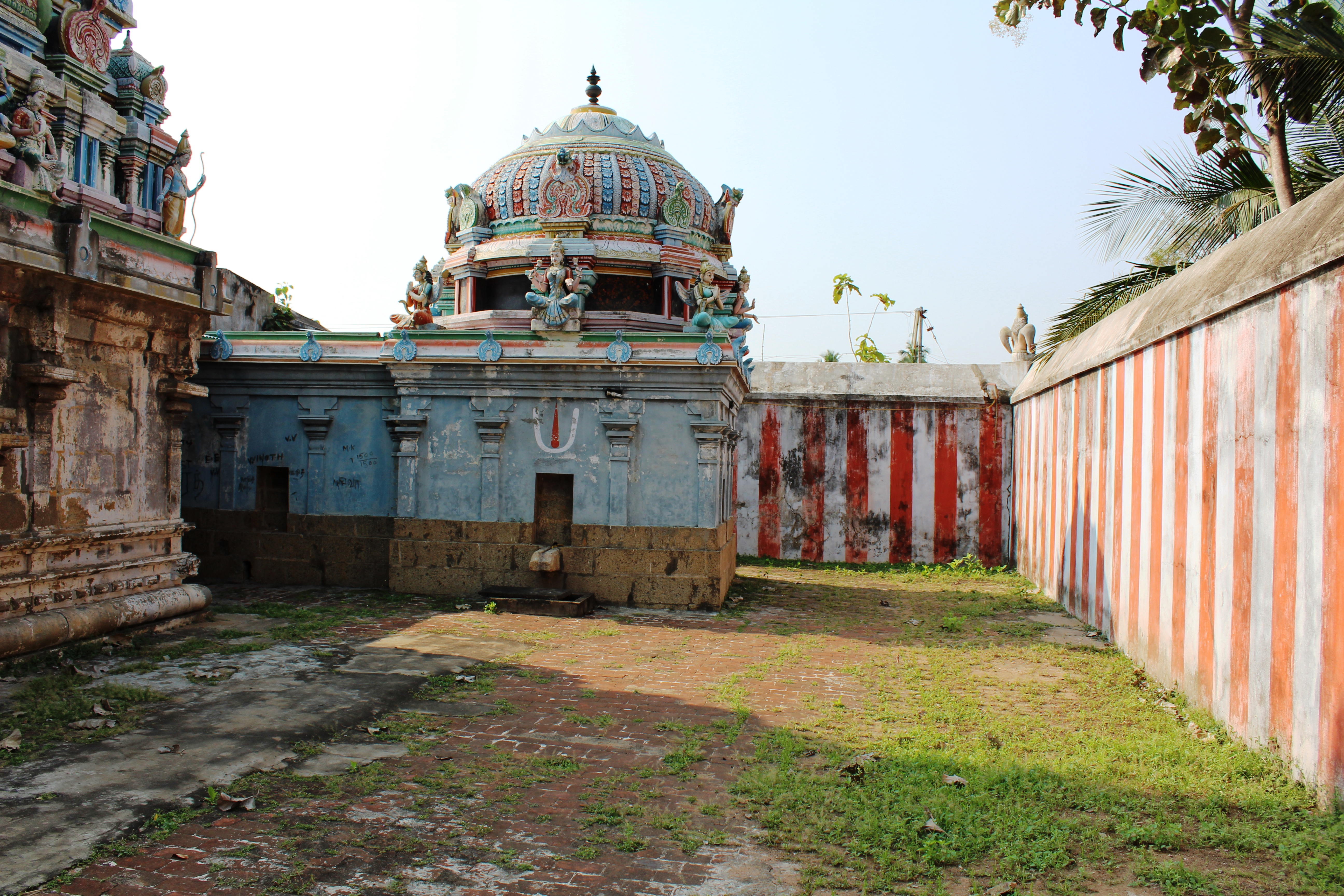 Adhanoor